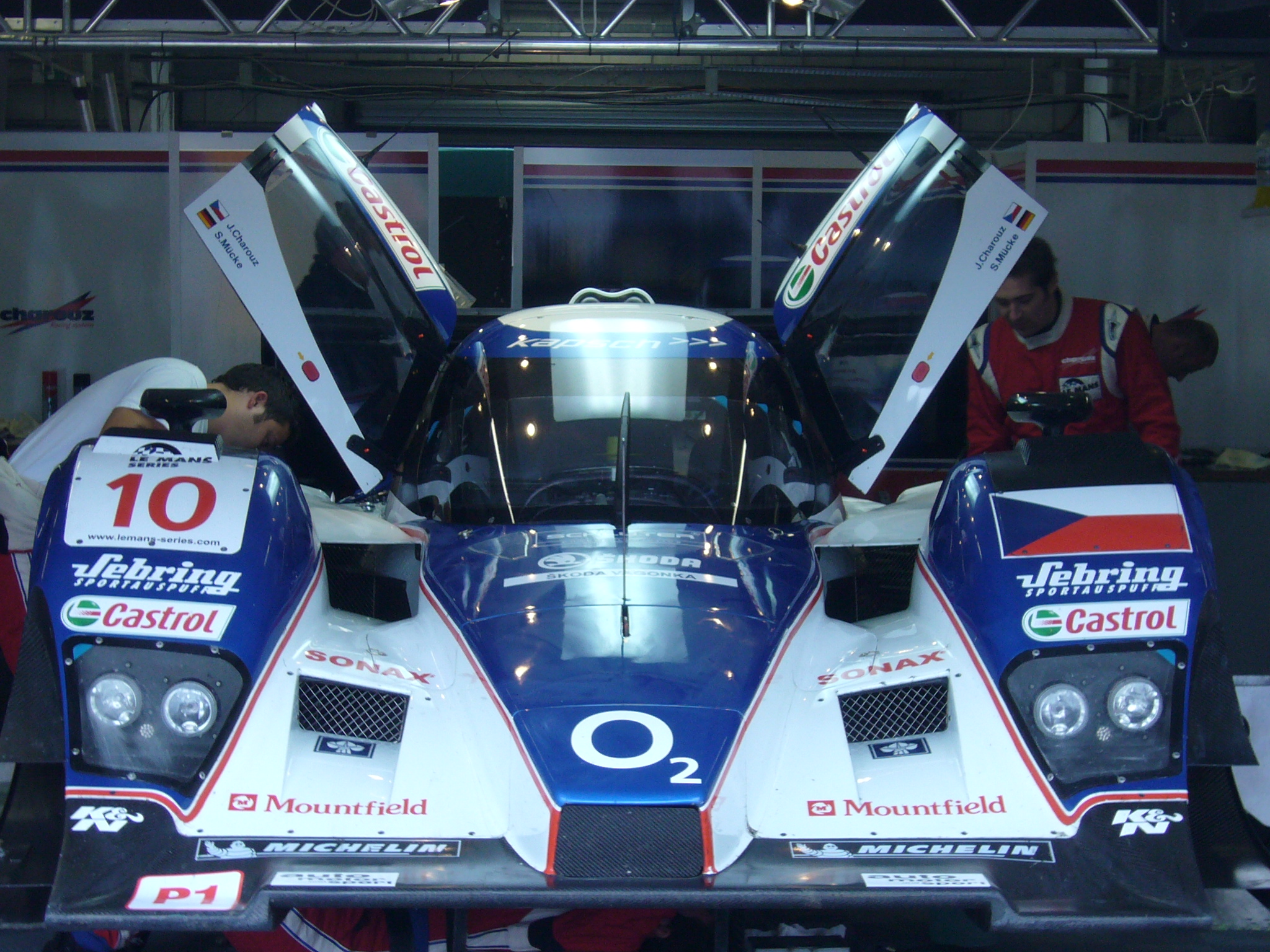 Charouz Racing System's Lola B08/60-Aston Martin at the 2008 1000km of Silverstone